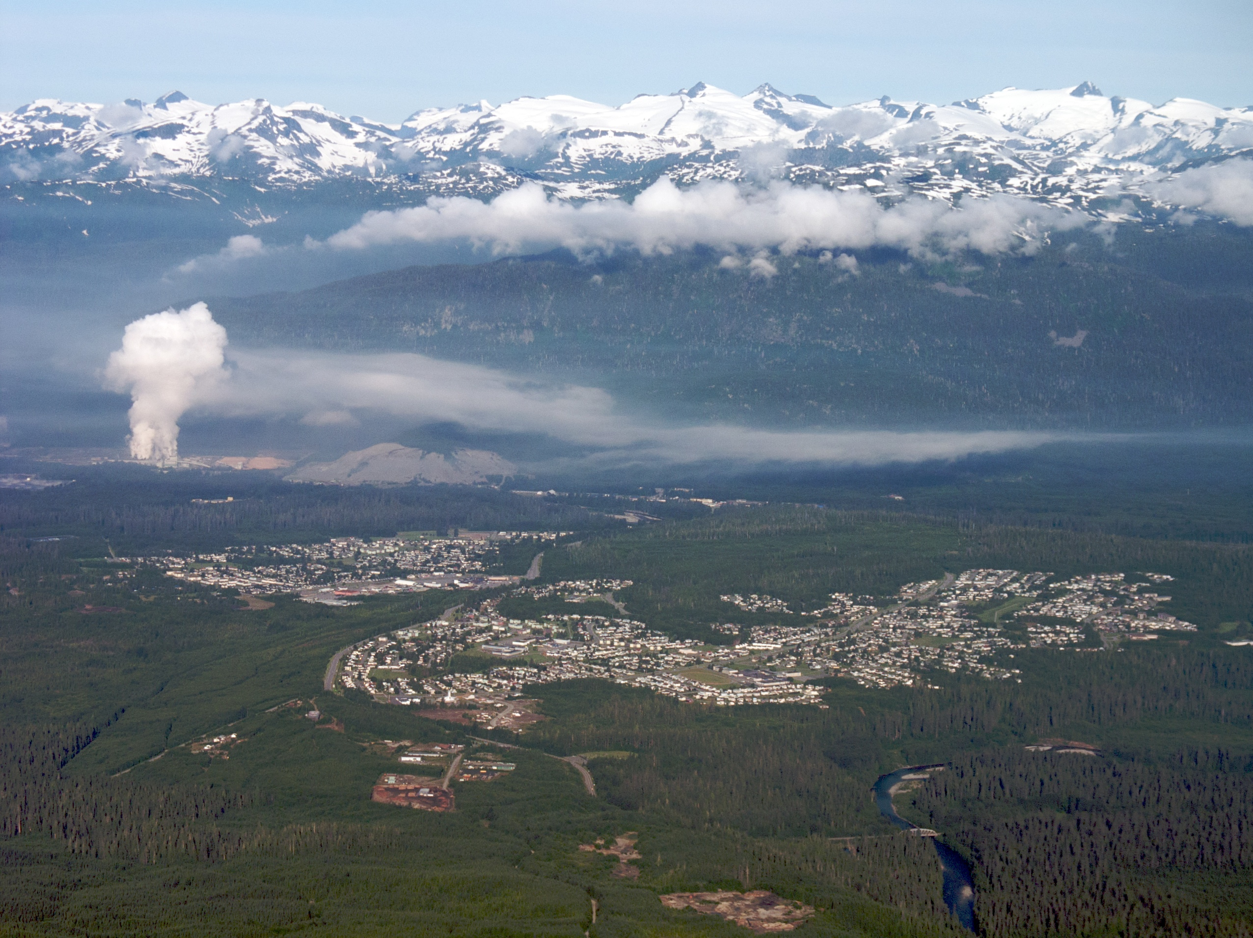 Aerial view of the city of Kitimat — in British Columbia, Canada. With the Kitimat Ranges of the Coast Mountains System rising behind.